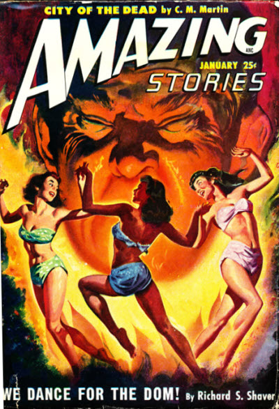 Cover of Amazing Stories, January 1950